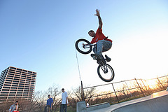 Penn Valey Skatepark